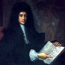 Francesco Redi (1626–1697), Italian physician (toxicology) and biologist (entomology, parasitology). Often referred to as "The father of modern parasitology" and "Founder of experimental biology".